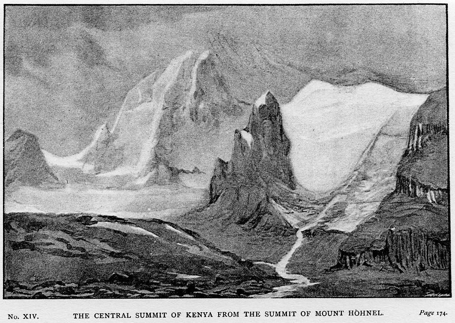 Sketch by Gregory from his expedition to East Africa in 1892-3. This shows "The Central Summit of [Mount] Kenya from the Summit of Mount Höhnel"